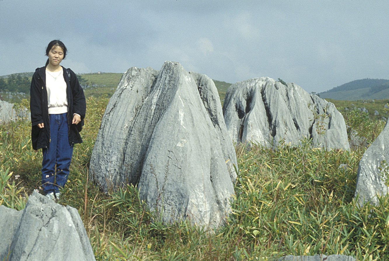 Karst pinnacles at Akiyoshidai, Yamaguchi, Japan. Photo by Ian McKenzie, Calgary Canada.